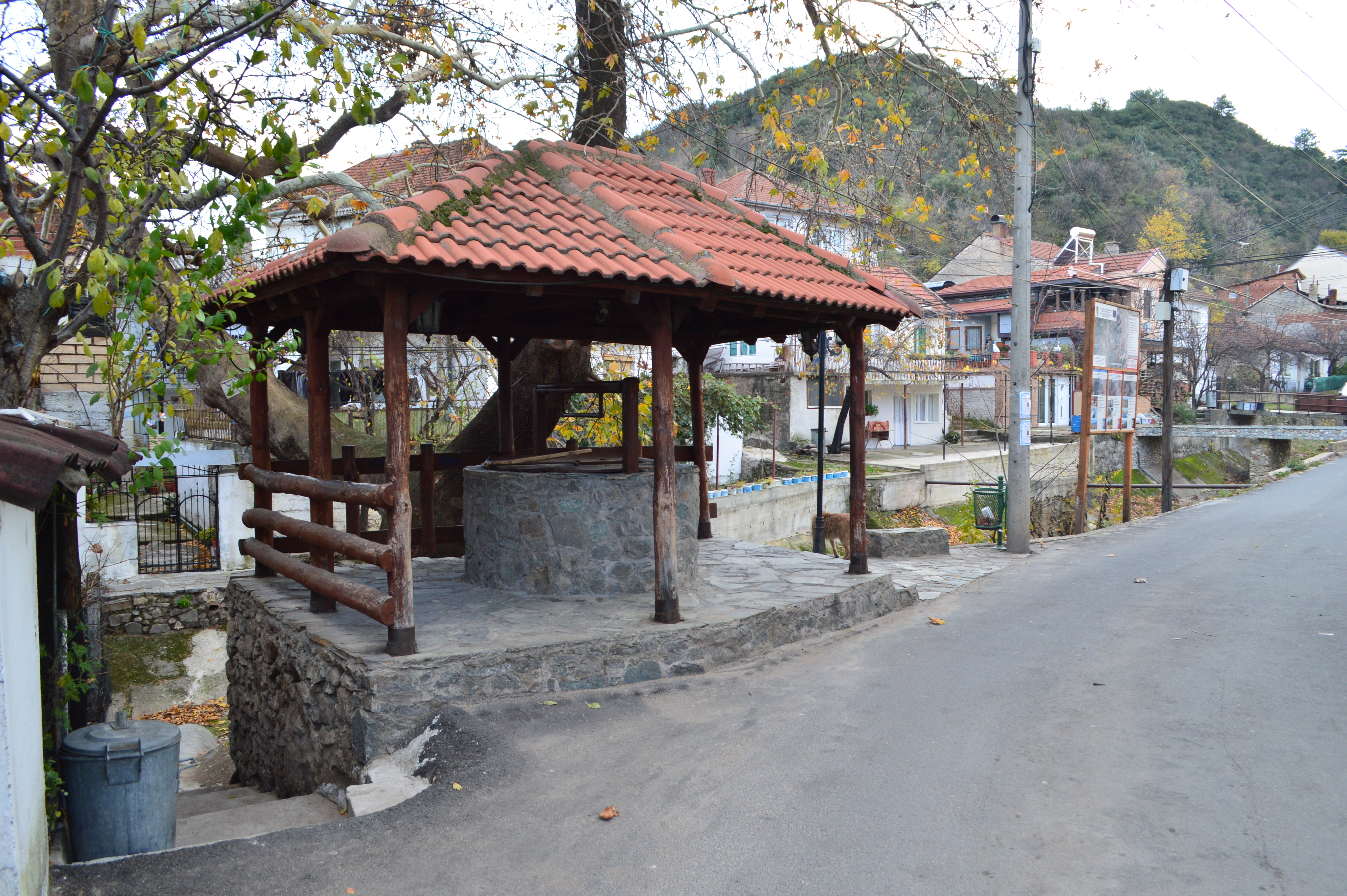 The Girl's Well/Momin Well built in a neighborhood near the hill in Strumica, Republic of Macedonia.